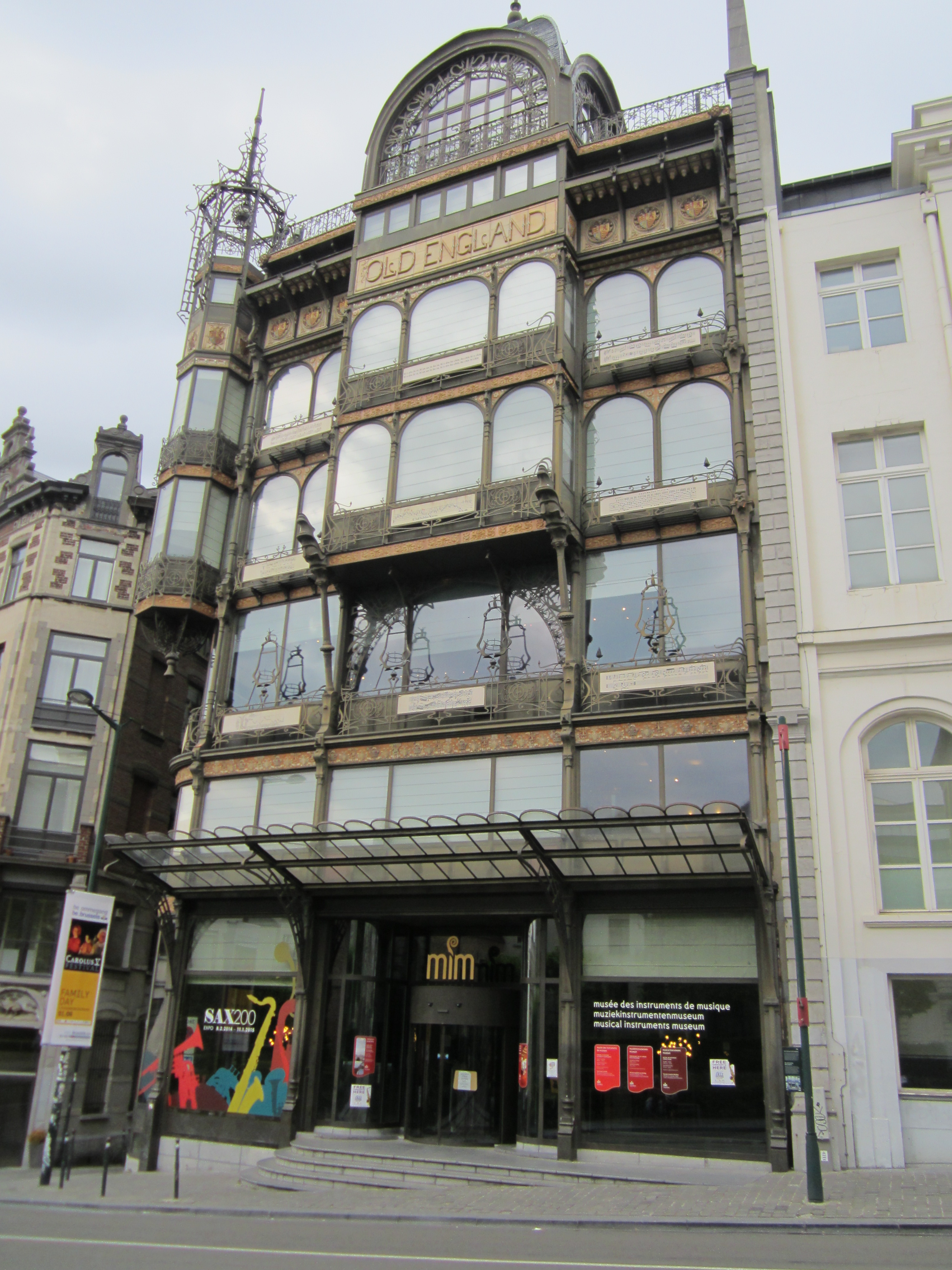 Exterior of the Musical Instrument Museum